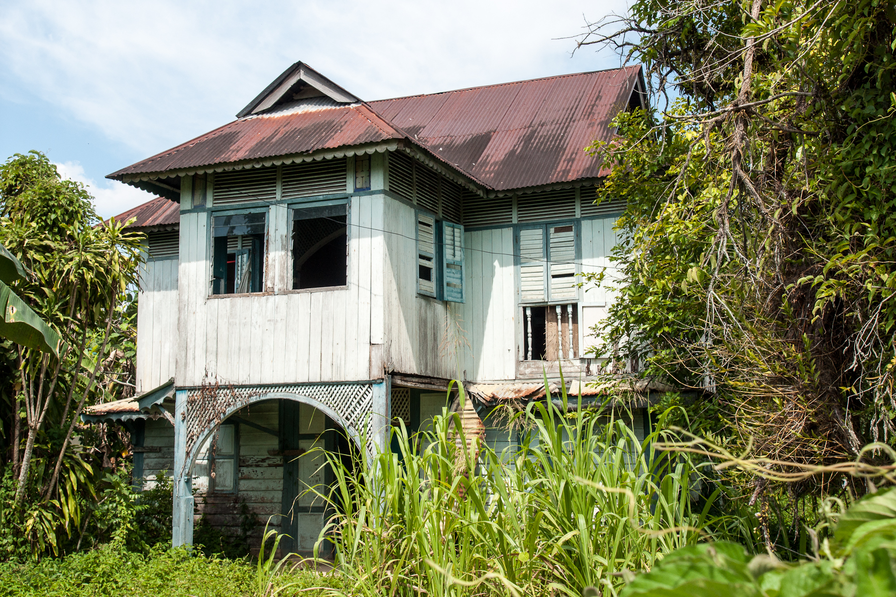 "Blue House", opposite of SJK Pei Yin